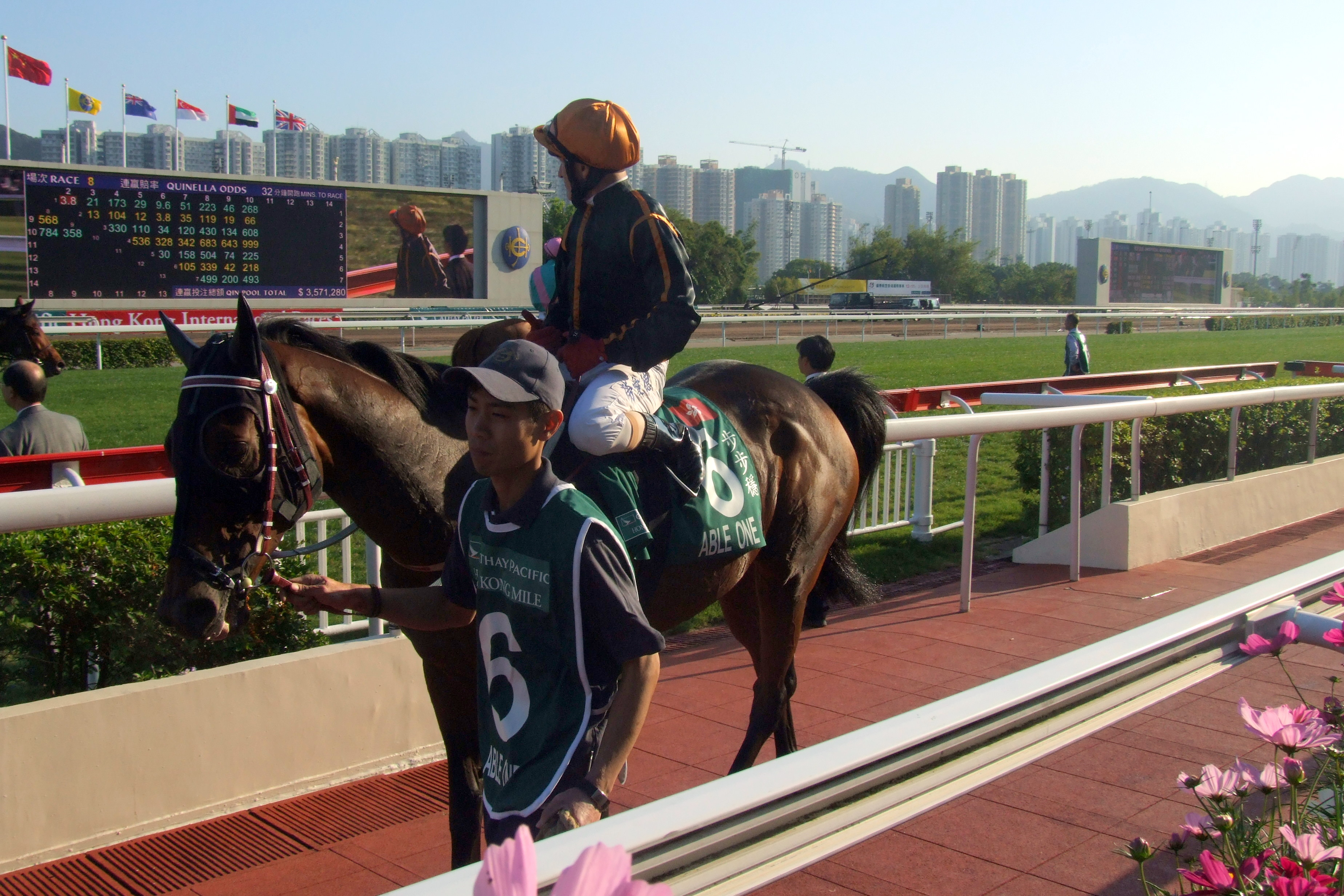 Able One, won Hong Kong Mile in 9yos